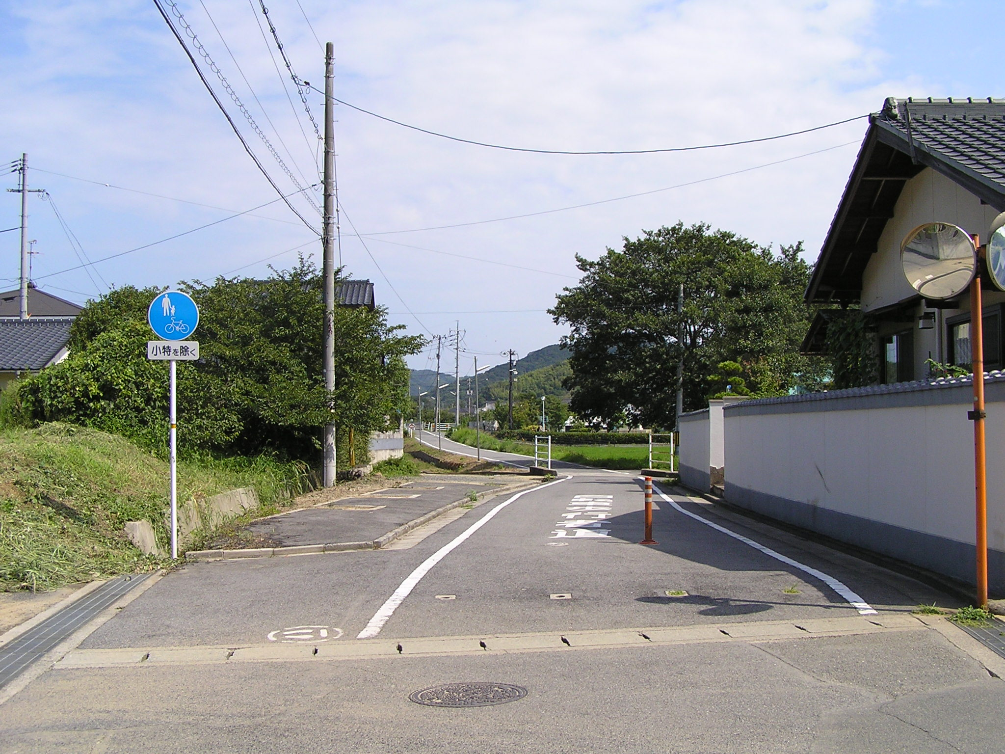 Shimotsui electric railway Amaki Station mark